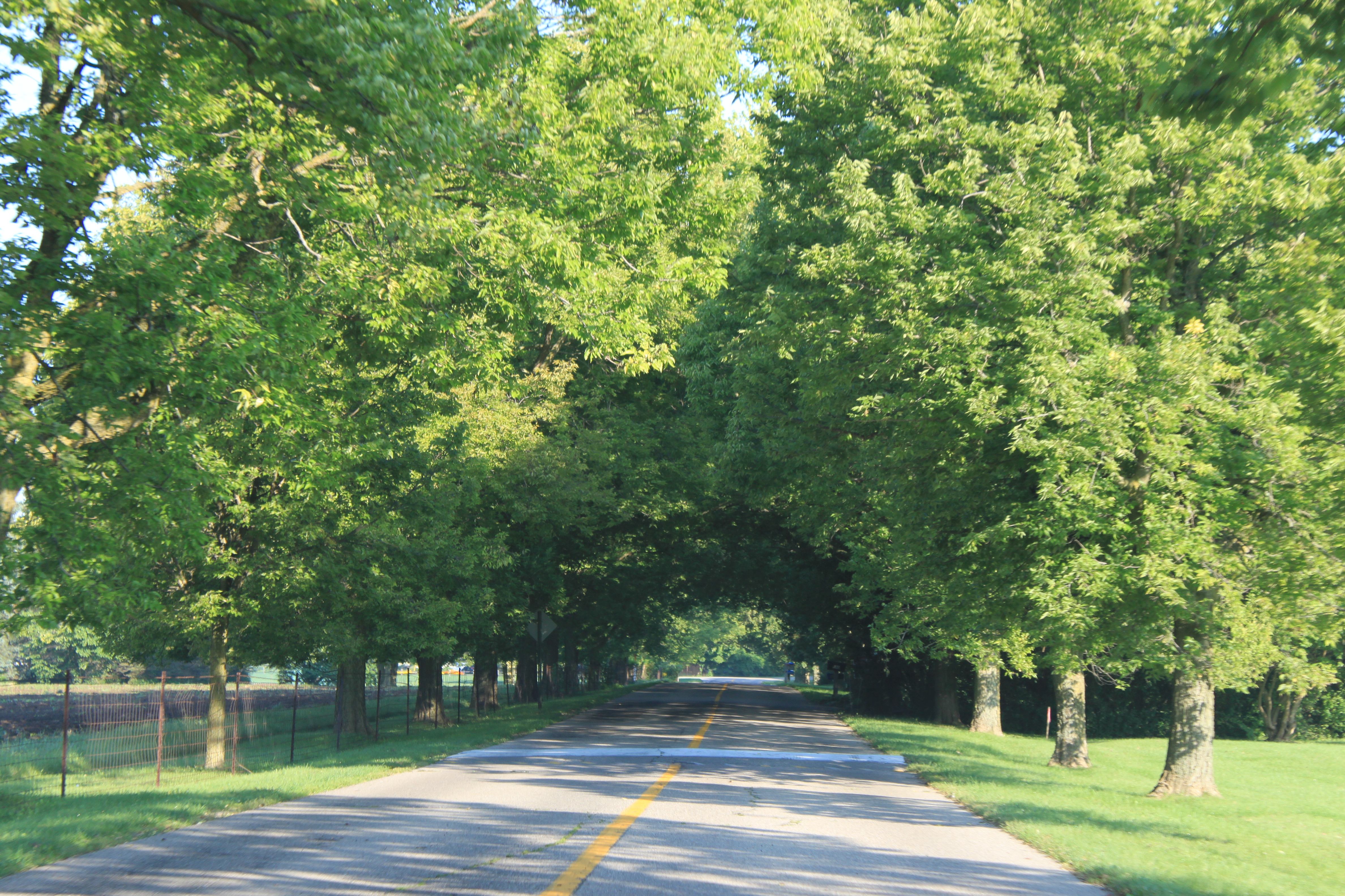 Barton Shore Drive, Barton Hills, Michigan.